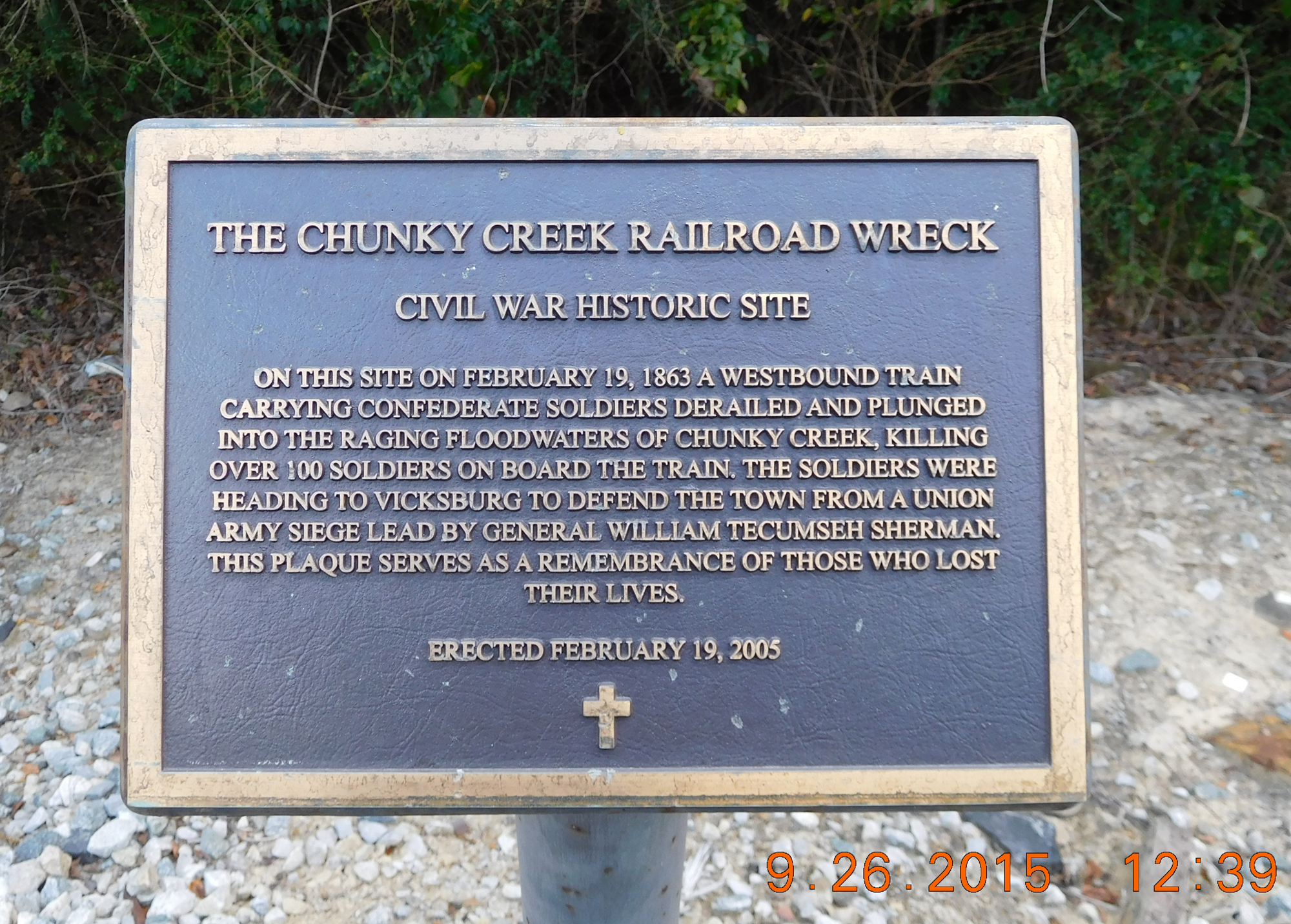 A memorial to those who lost their lives in The Chunky Creek Train Wreck of 1863.